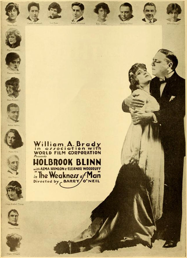 Advertisement in The Moving Picture World for the film The Weakness of Man (1916) with Holbrook Blinn and Alma Hanlon. The ad also has small images of other actors and actresses who are not in this film.